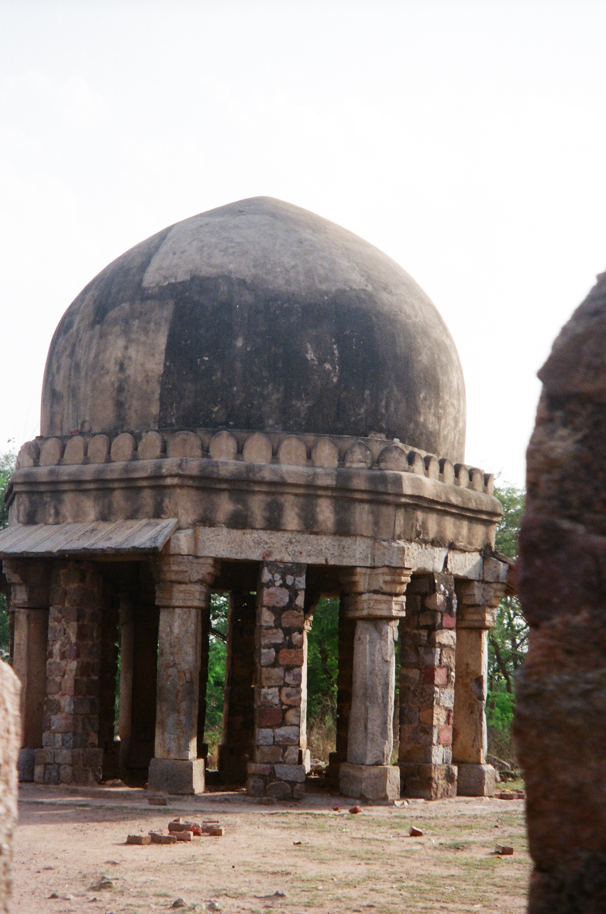 Chatri or Cenetoph of one of the son's of Iltumish